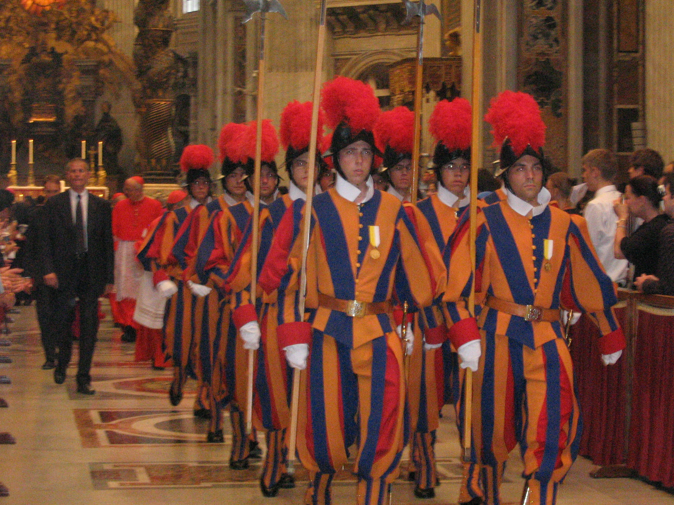 a group of Swiss guards after a celebration inside St. Peter Dome, 29 june 2006